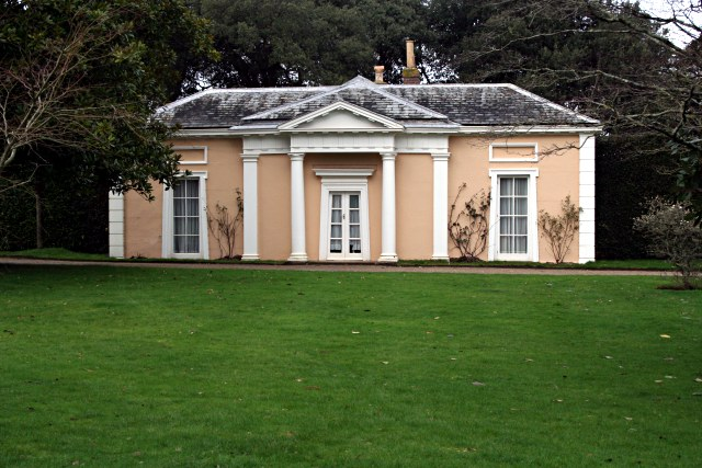 Summer House in the English Garden, Mount Edgcumbe Formal Gardens